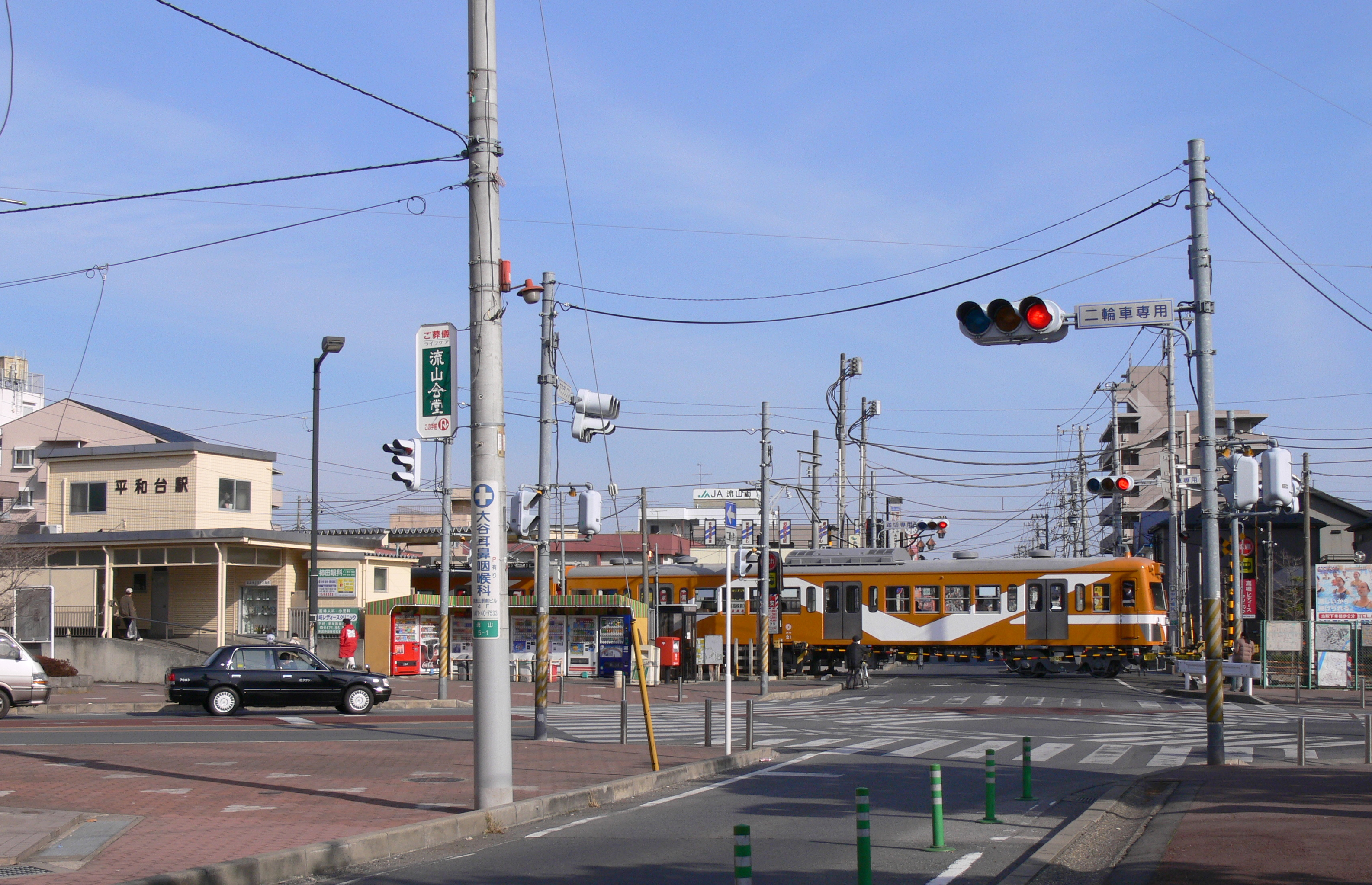 Nagareyama-Dentetu Railway Heiwadai-Station(Japan,Chiba,Nagareyama City). It takes a picture of the station at Heiwadai-Station in the Nagareyama-Dentetu railway line from the public road(Japan).